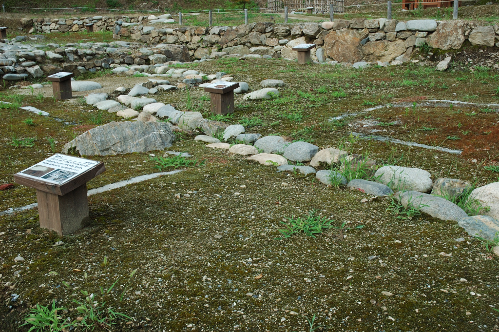 remains of Sannomaru